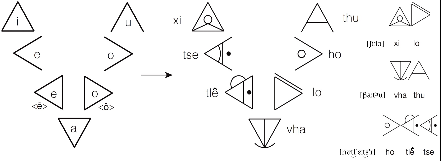 The composition of the syllables of the words "Xilo", "Vhathu" and "Ho tlêtse"